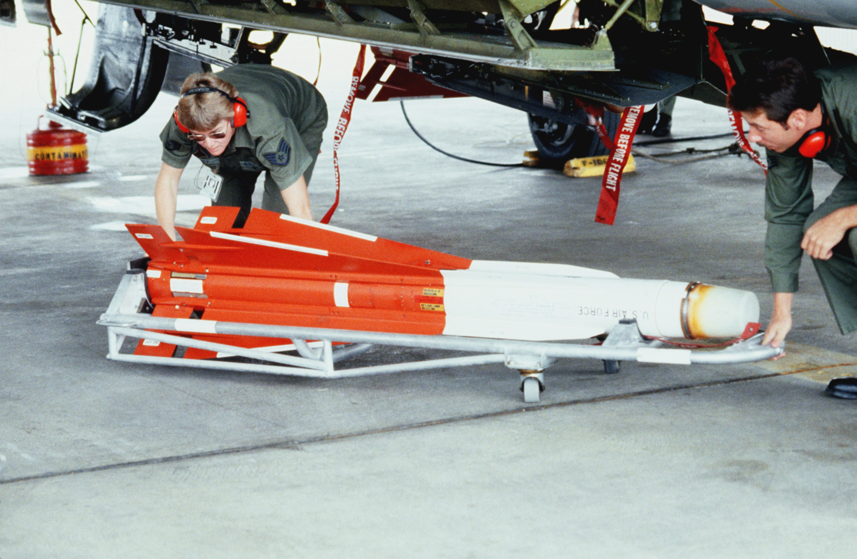 A U.S. Air Force Staff Sgt. Sandra Talboot and Staff Sgt. Johnson secure an AIM-4G Super Falcon missile in a cart after removing it from the weapons bay of a Convair F-106A Delta Dart aircraft at Davis-Monthan Air Force Base, Arizona (USA), on 14 December 1983. They are assigned to Detachment 1, 5th Fighter Interceptor Squadron.